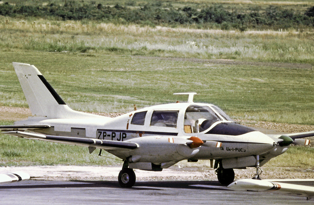 Beagle 206 ZP-PJP at Asuncion airport. Ex RAF Bassett CC.1 XS774.